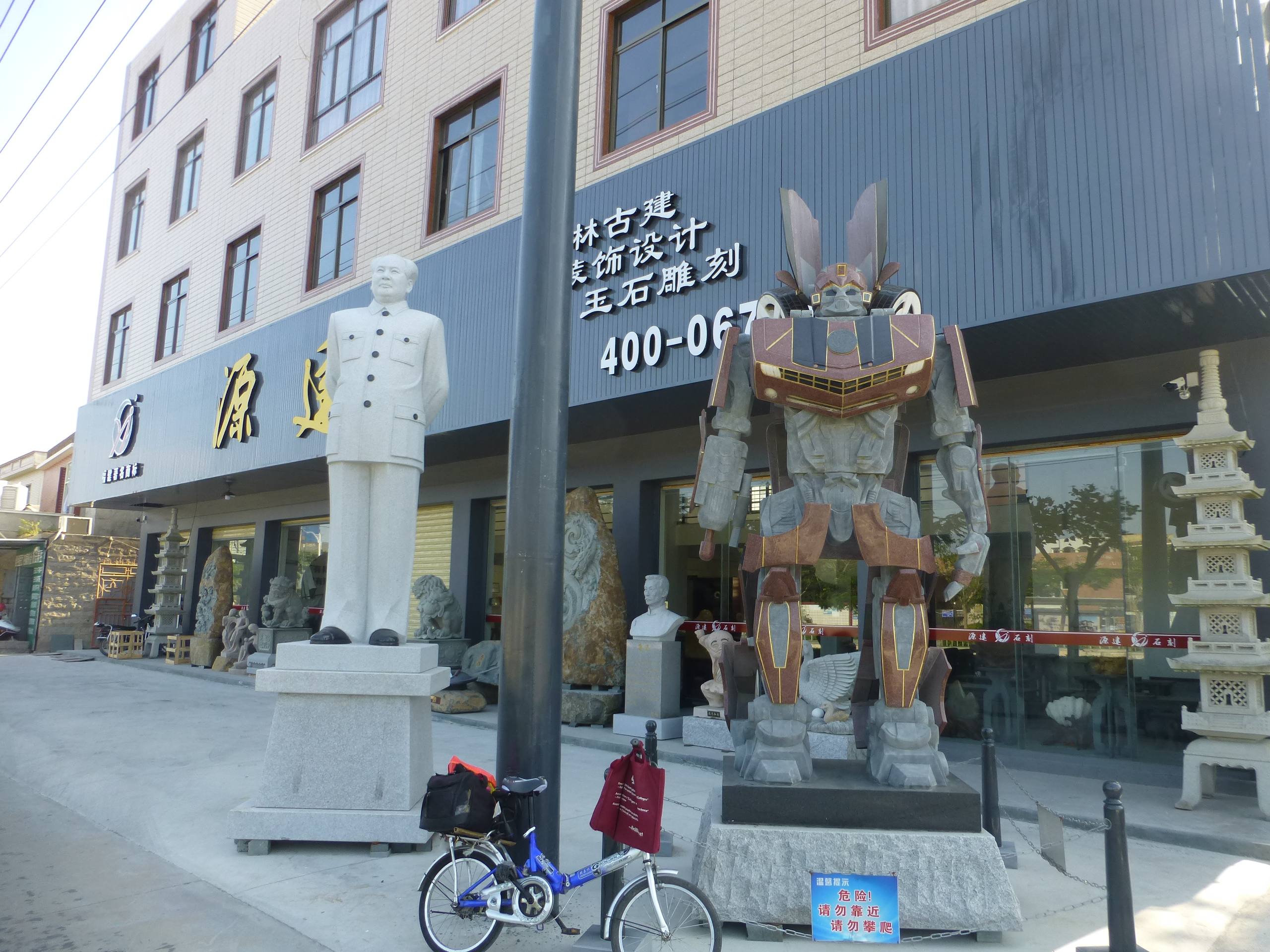 The Huichong Highway (Road X308), connecting downtown Hui'an and Chongwu Town is lined up with sculpture workshops, whose front yards are decorated with their products